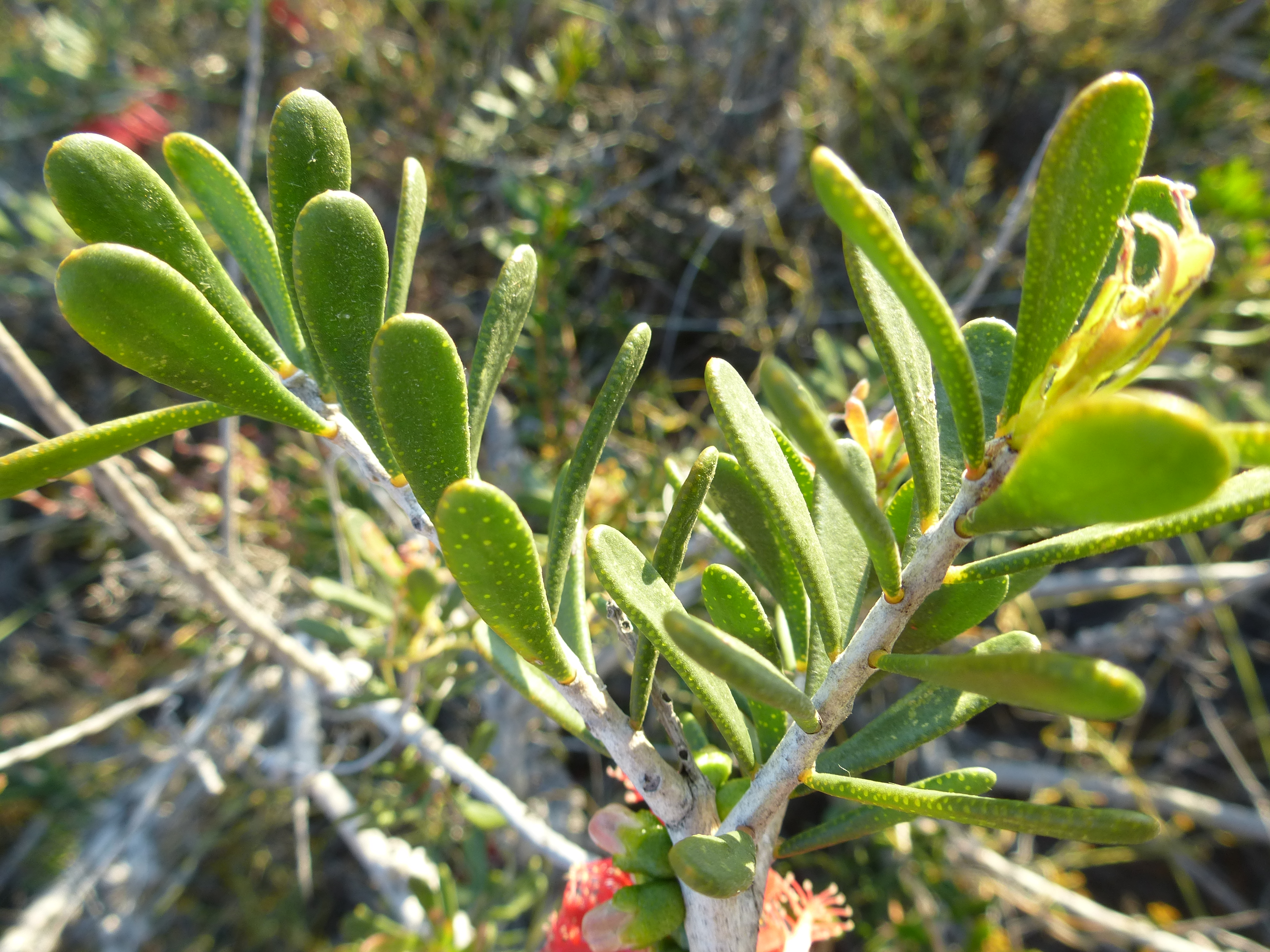 Calothamnus quadrifidus homalophyllus growing near the Red Bluff car park